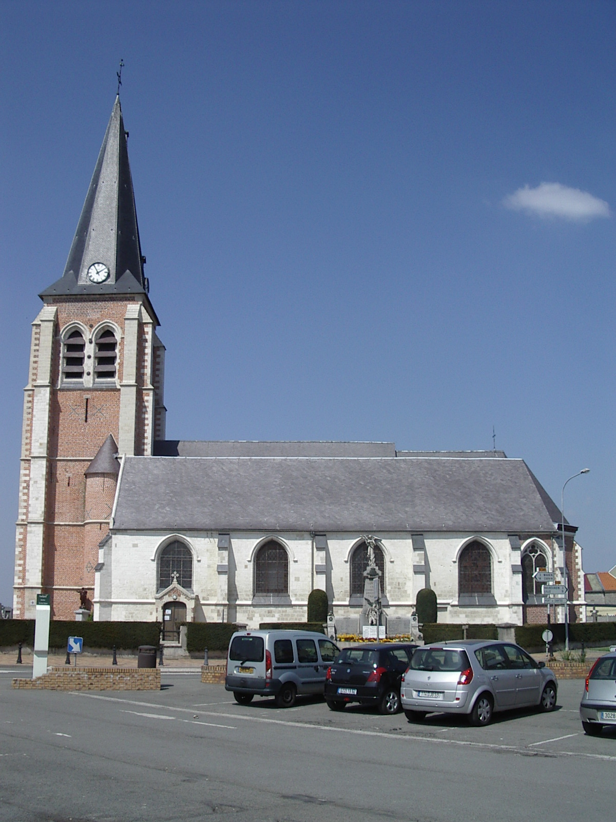 Churche of Santes (59, France)